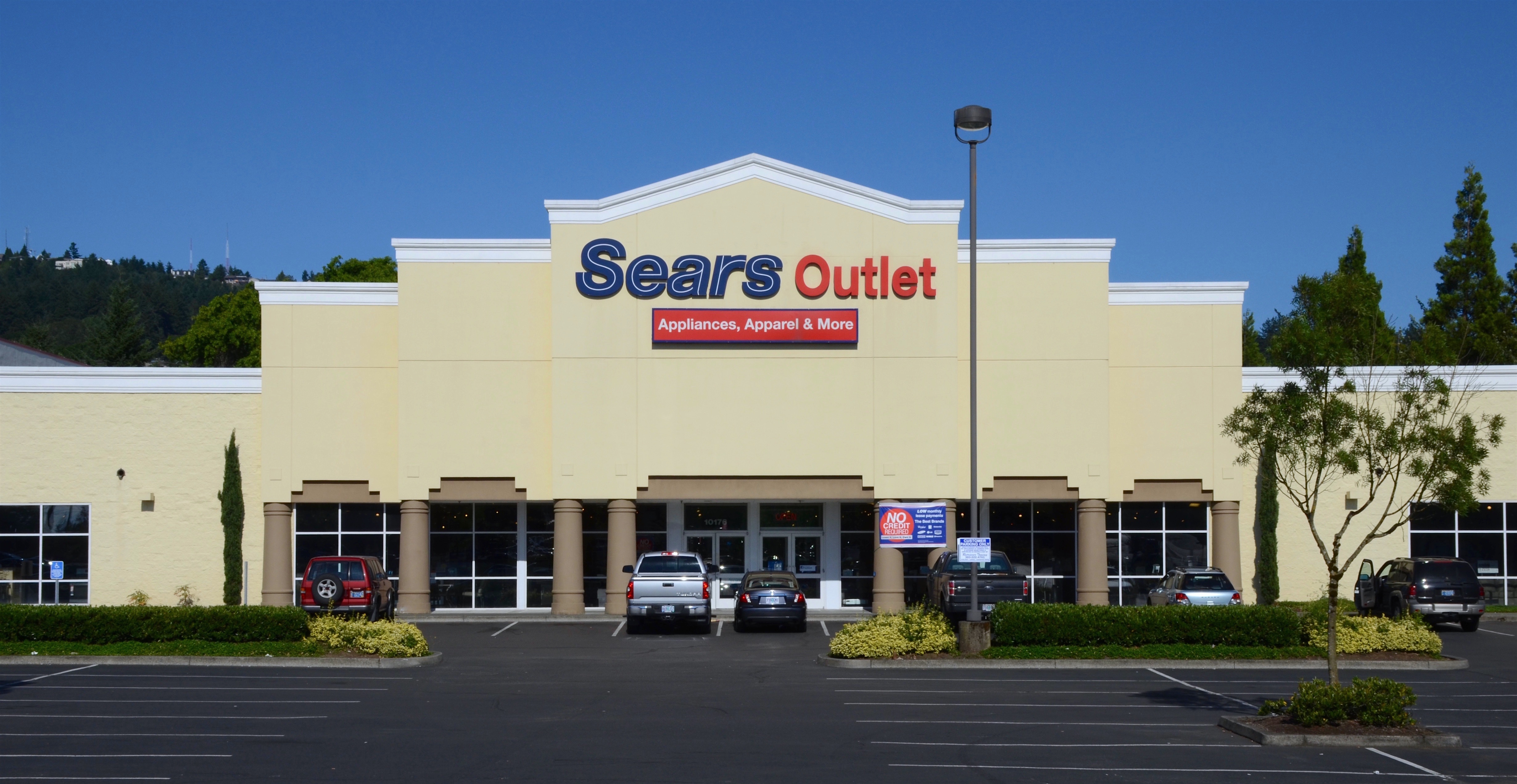 Sears Outlet store on Southeast 82nd Avenue near Otty Road, in the Portland, Oregon, metropolitan area – specifically in the unincorporated Clackamas area southeast of the city proper.